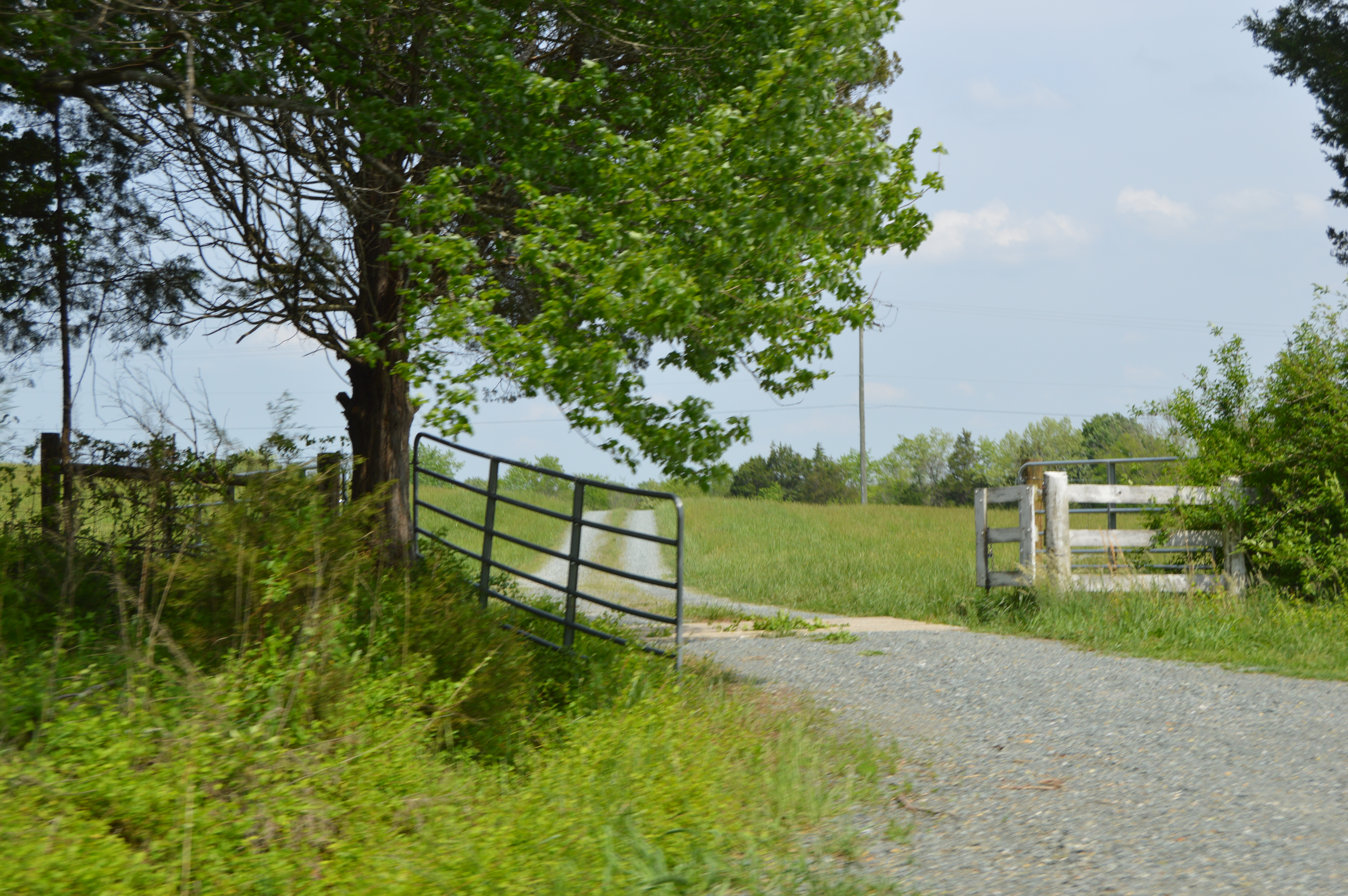 Driveway to the Harris Farm, located on State Route 53 southeast of Charlottesville in Albemarle County, Virginia, United States. The estate is listed on the National Register of Historic Places.